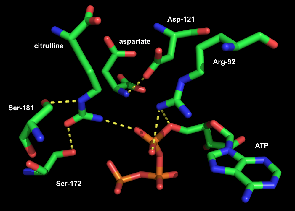 Active site of Thermus thermophilus argininosuccinate synthetase including bound substrates interacting with select active site residues.